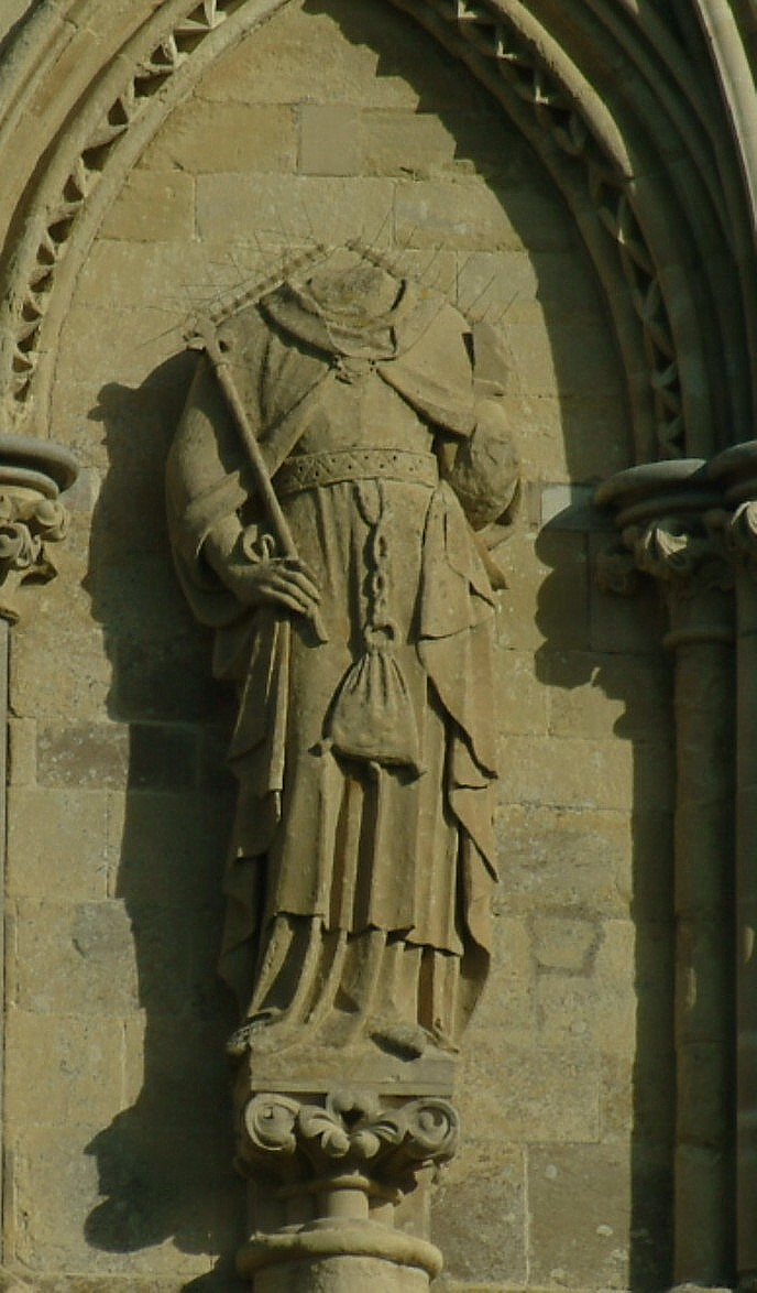 A statue of King Solomon on the West Front of Salisbury Cathedral, UK.